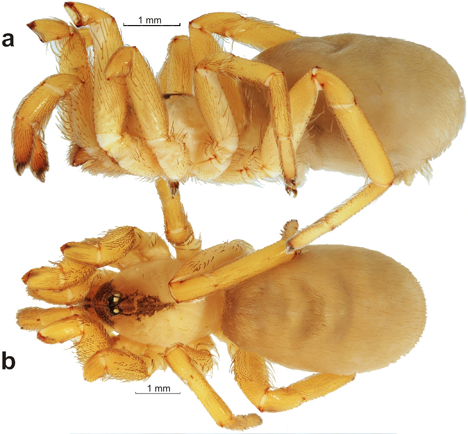 Holotype of Zaitunia akhanii, female in lateral (a) and dorsal (b) view.